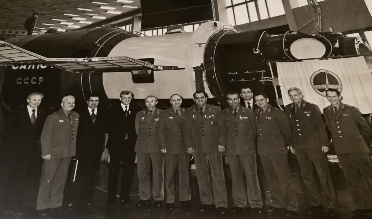 Photo of Yordan Milanov in 1971